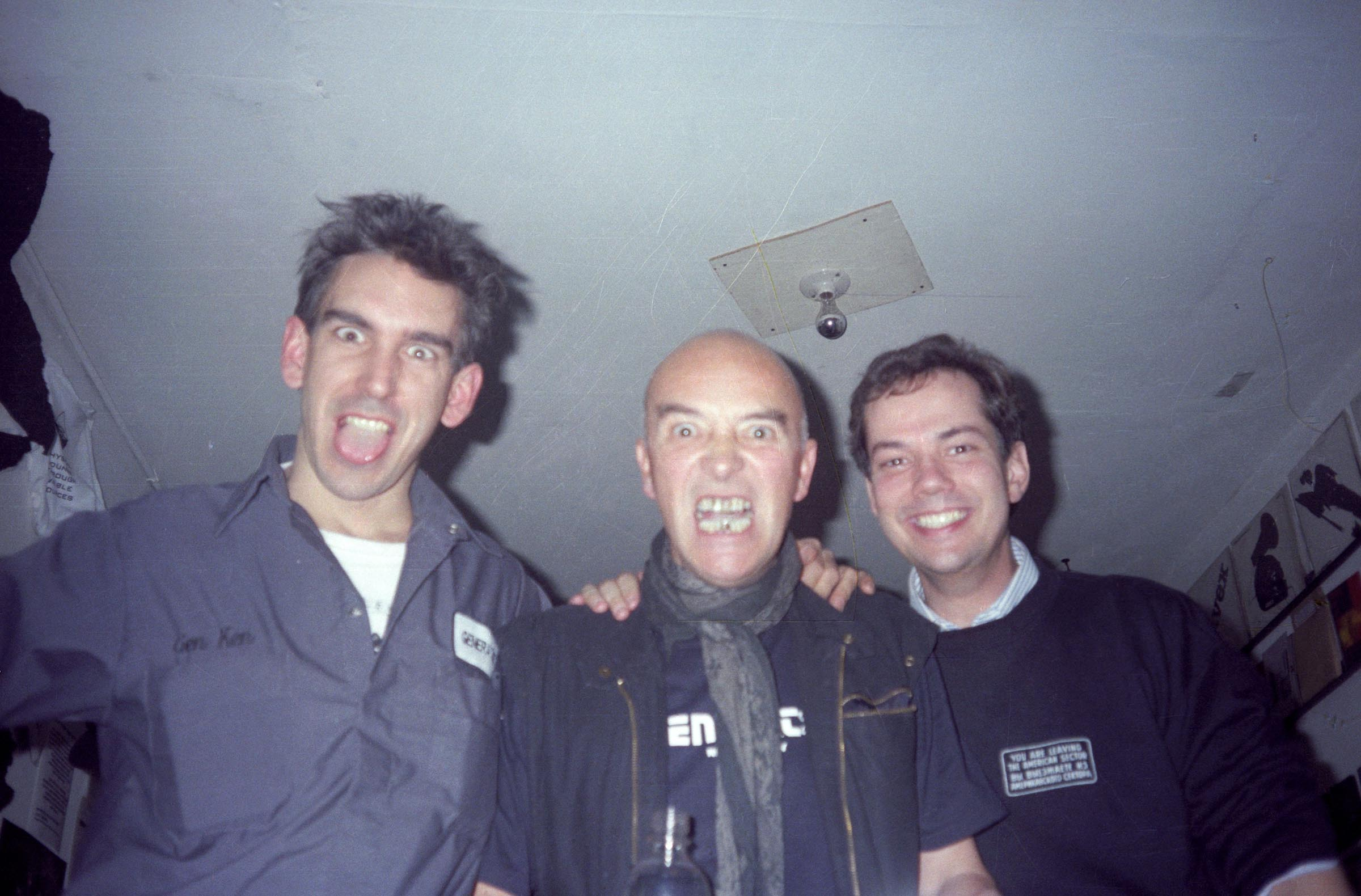 Gen Ken Montgomery, Conrad Schnitzler and David Prescott at Generator NYC 1989